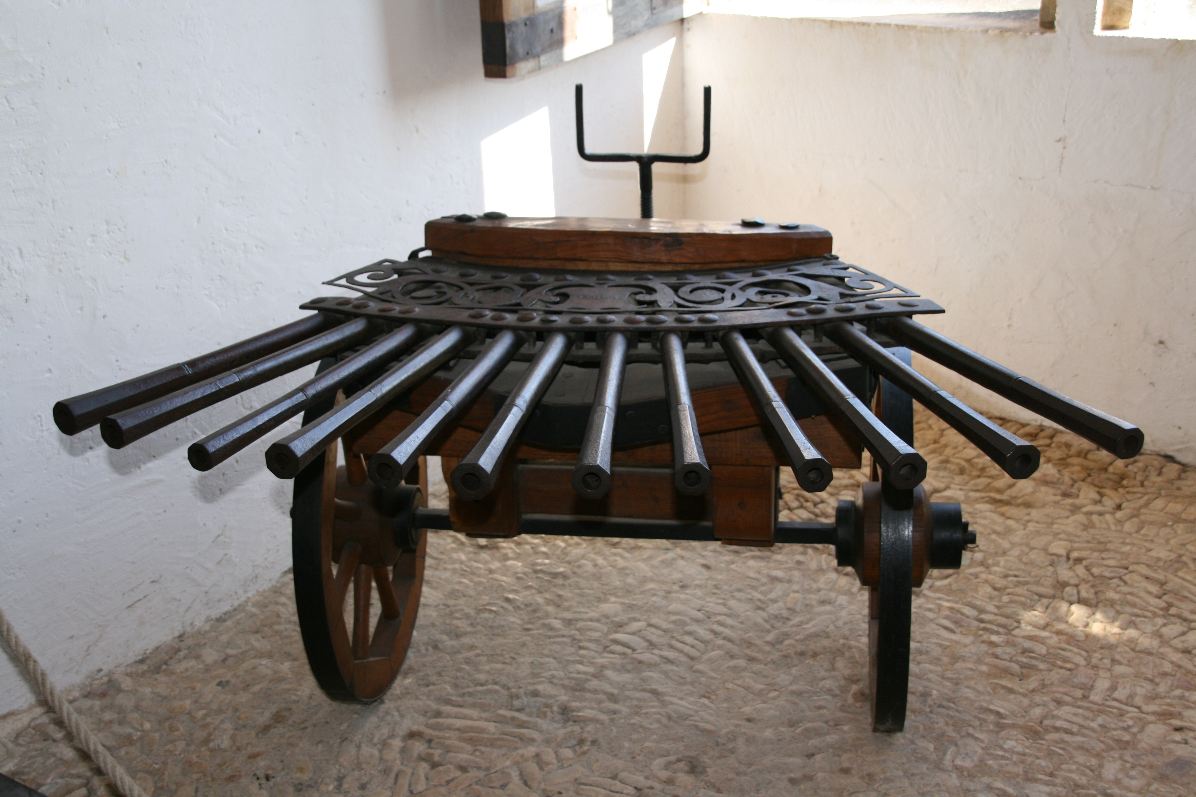 Ribauldequin (or organ gun), 16th century, Germany. This mobile weapon consisting of 12 barrels of 66.5 cm long, can shoot lead balls of 16 to 18 mm. The frame was reconstructed from a drawing by Leonardo da Vinci. Photo taken in the Château de Castelnaud, Castelnaud-la-Chapelle, Dordogne, Aquitaine, France.